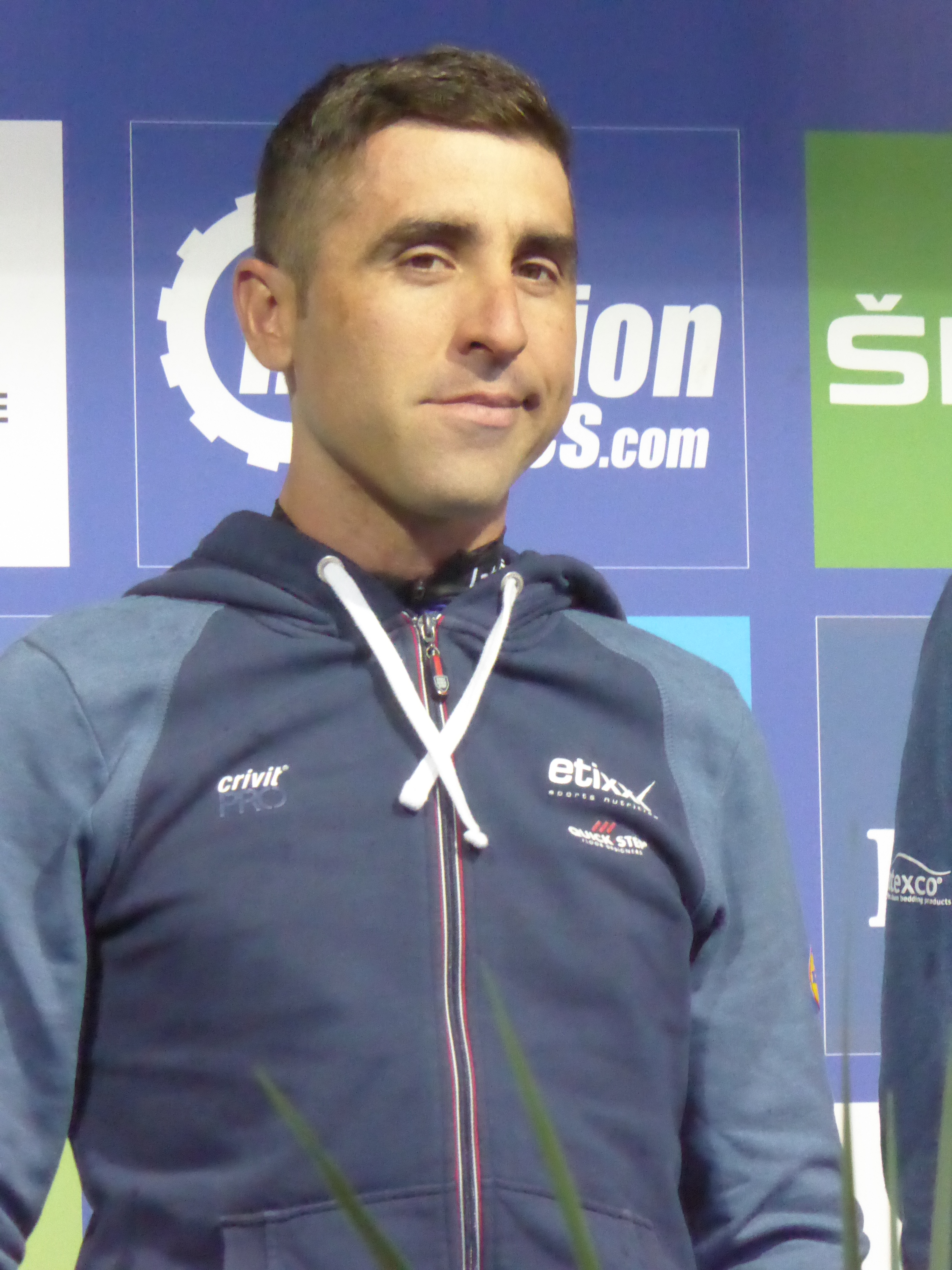 Maximiliano Richeze (Etixx-Quick Step), pictured at the 2016 Tour of Britain team presentation in Glasgow on 3 September 2016.